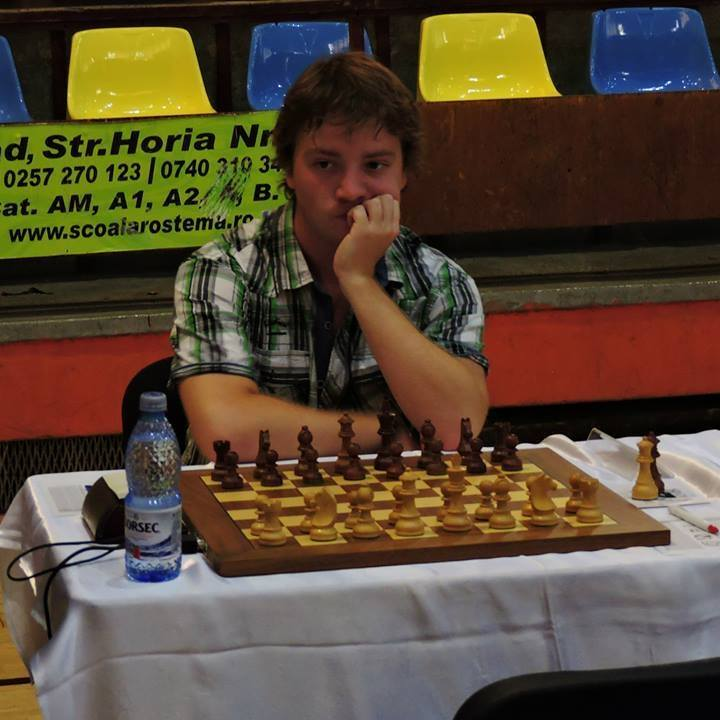 picture